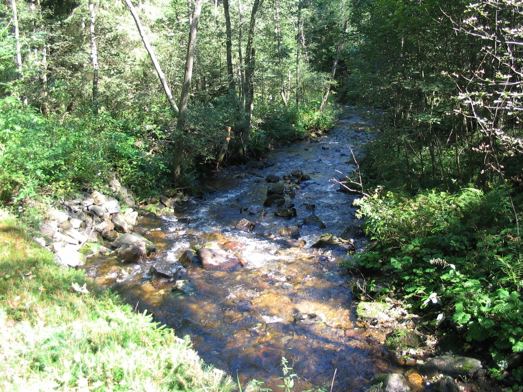 Losenice river on the borders of Losenice and Losenice II nature preserves in Bohemian Forest, Klatovy District, Czech Republic